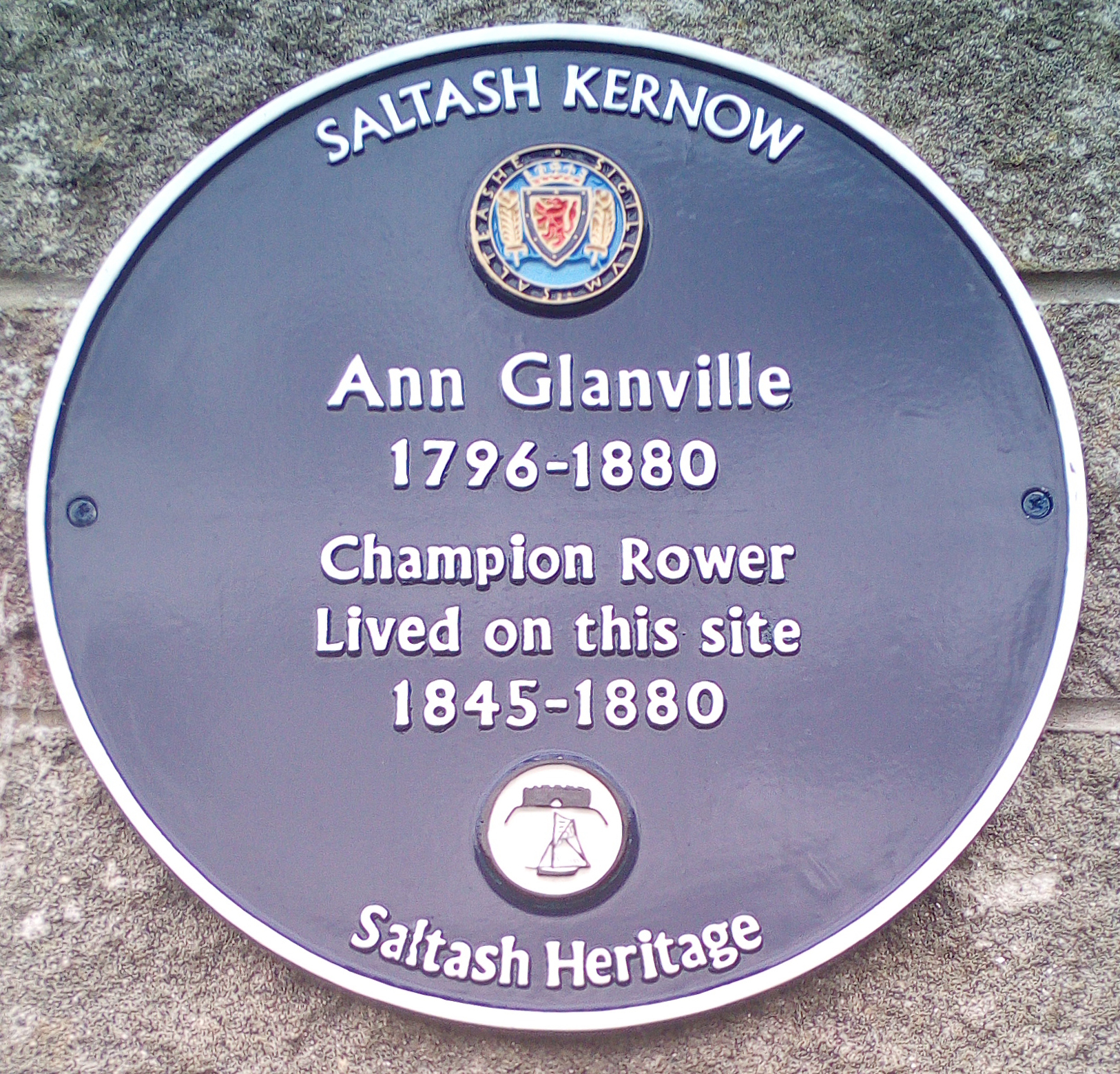 (This image represents an Open Plaques entry)